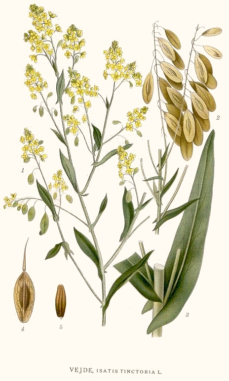 Original Description Vejde, Isatis tinctoria L.